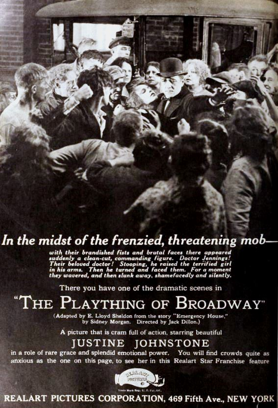 Advertisement for the American drama film The Plaything of Broadway (1921) with Crauford Kent and Justine Johnstone in the center of the mob, on page 12 of the March 19, 1921 Exhibitors Herald.